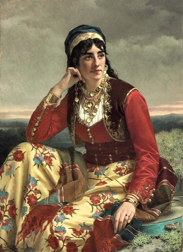 An eastern European Beauty